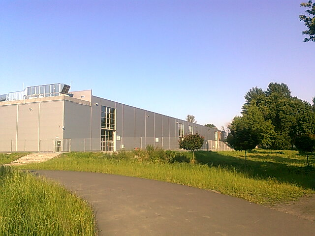 Park Ludowy in Lublin, Poland, July 2013